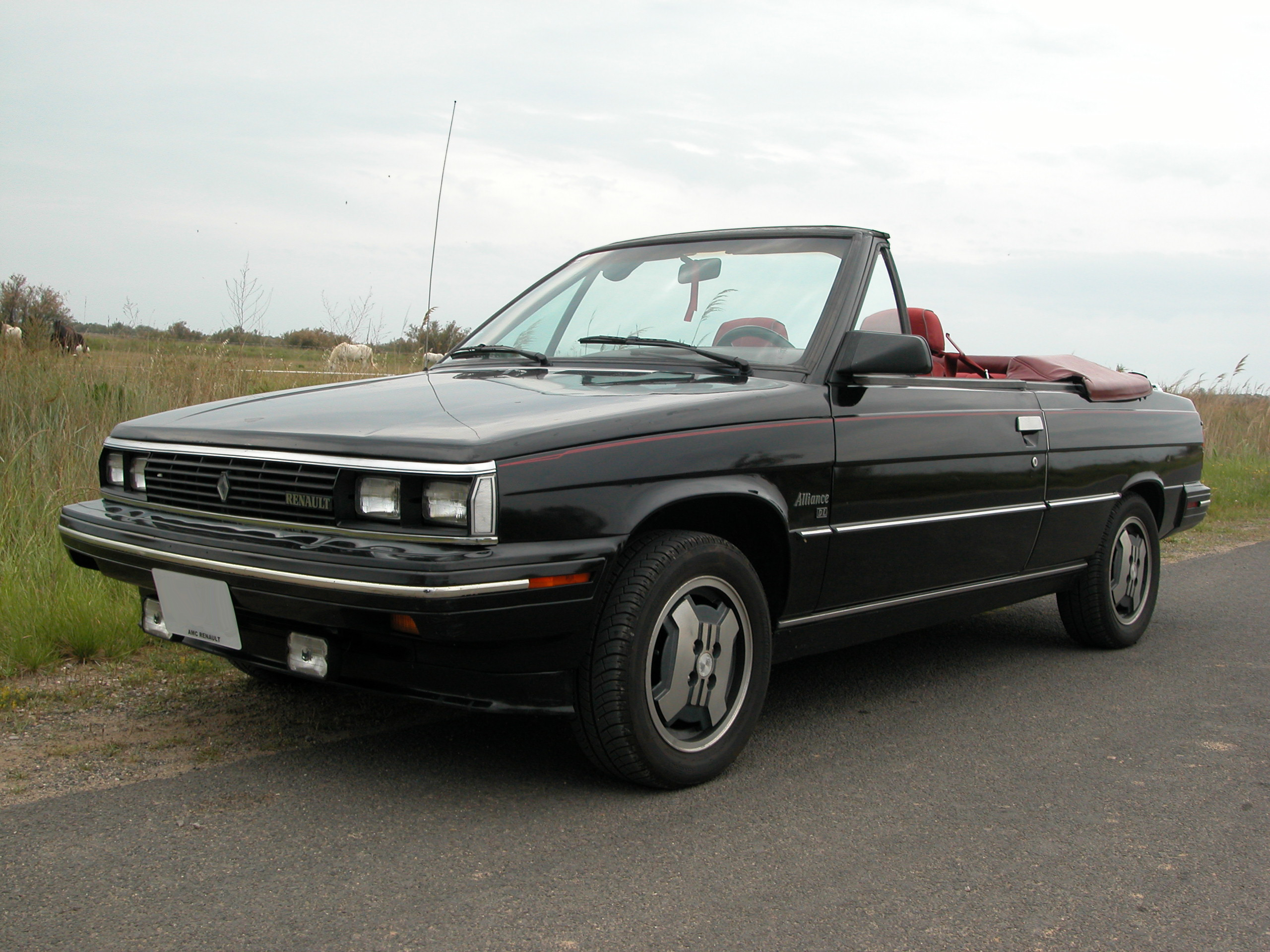 Renault Alliance Convertible 1986 DL